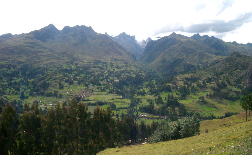 Jambon agricultural areas, Tazapampa, Pampash Chinlla and are rich pasture and food producing Andean like corn, potato, Yacon, etc.